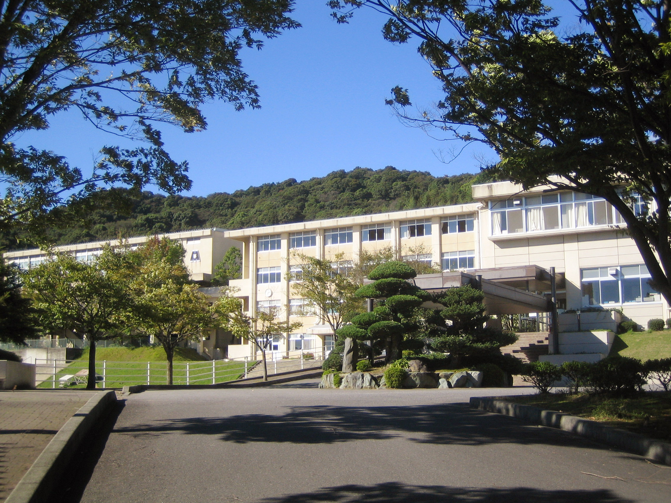 Mito High School (御津高等学校), in Mito, Aichi, Japan